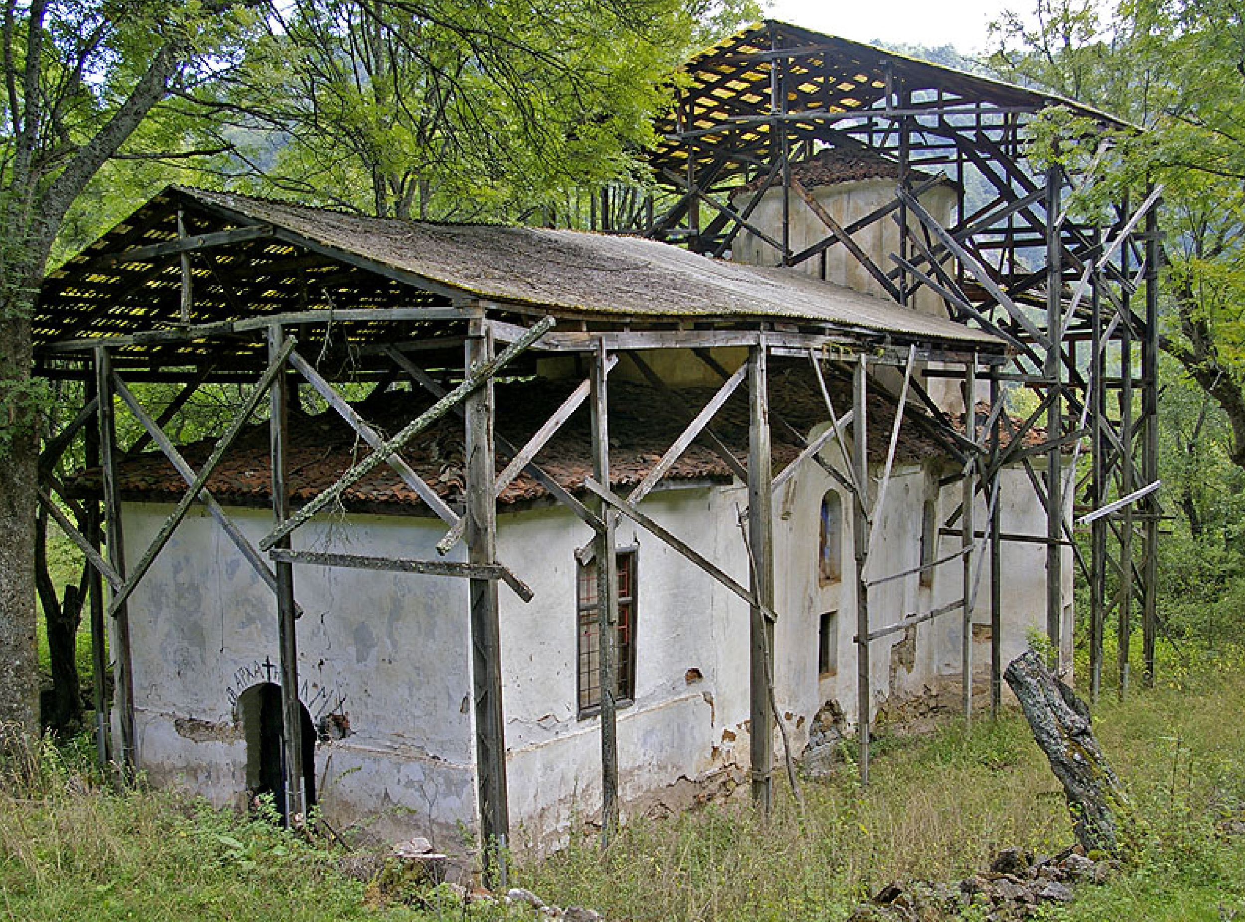 Trun monastery, Bulgaria